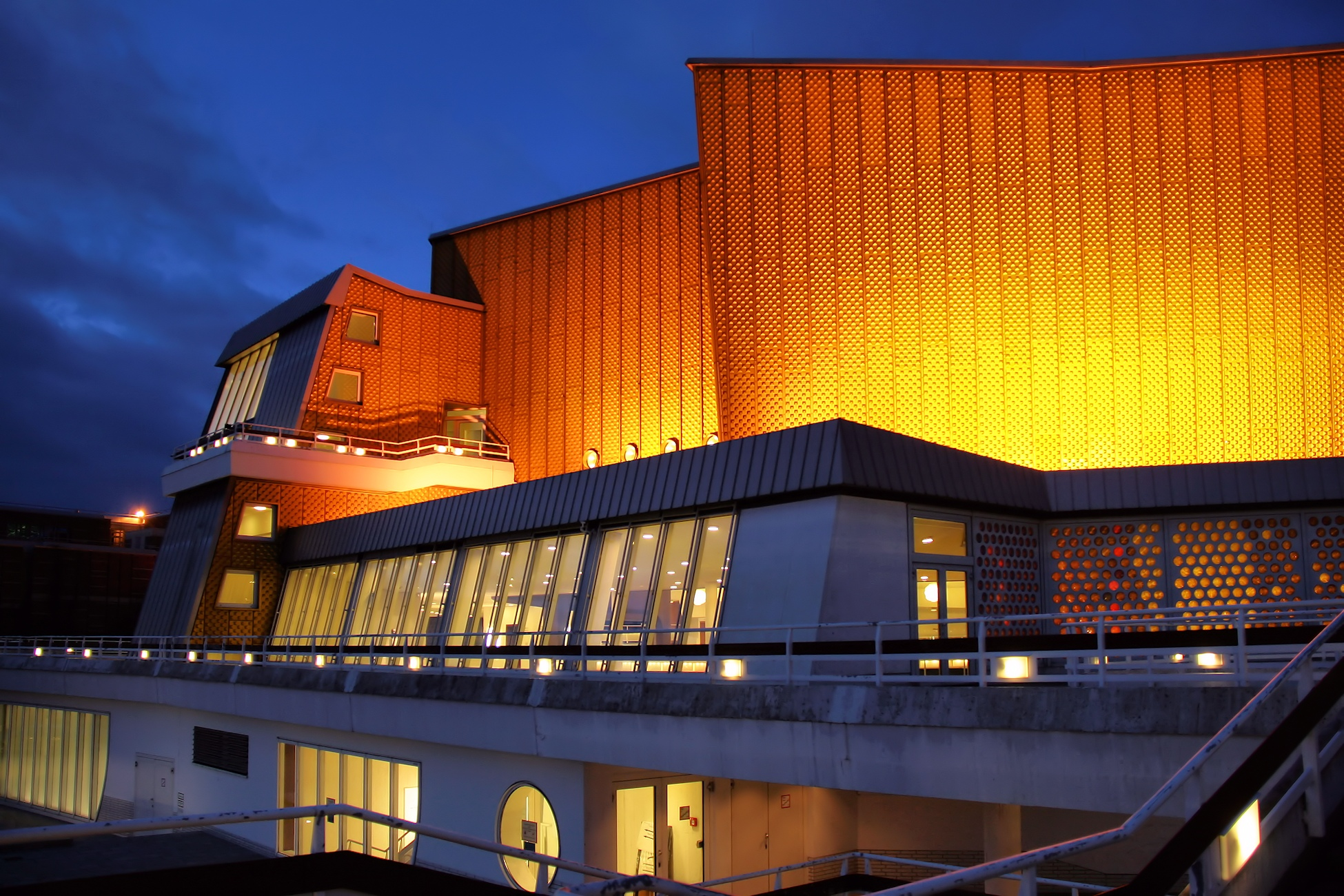 Concert hall in Berlin, Germany, home to the Berlin Philharmonic Orchestra.